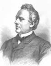 Hubert Joseph Walthère Frère-Orban (22 April 1812 - 2 January 1896) was a Belgian liberal politician and statesman.